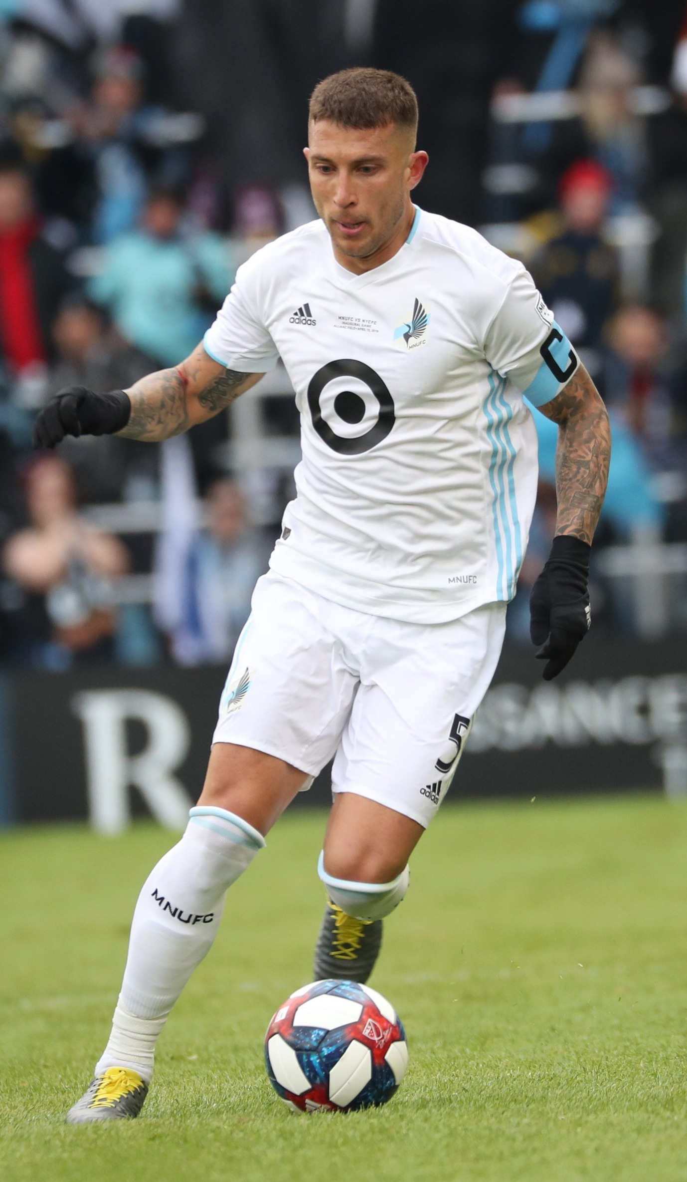 Calvo - Minnesota United - MNUFC v NYCFC NEW YORK CITY FOOTBALL CLUB - ALLIANZ FIELD - St. PAUL MINNESOTA.